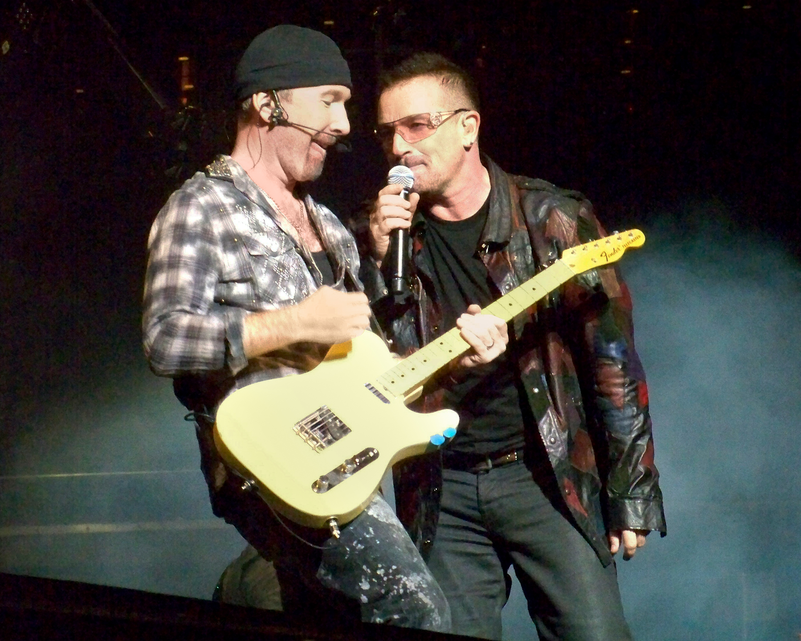 Bono and The Edge of U2 at Gillette Stadium, Foxboro, MA 9/21/2009